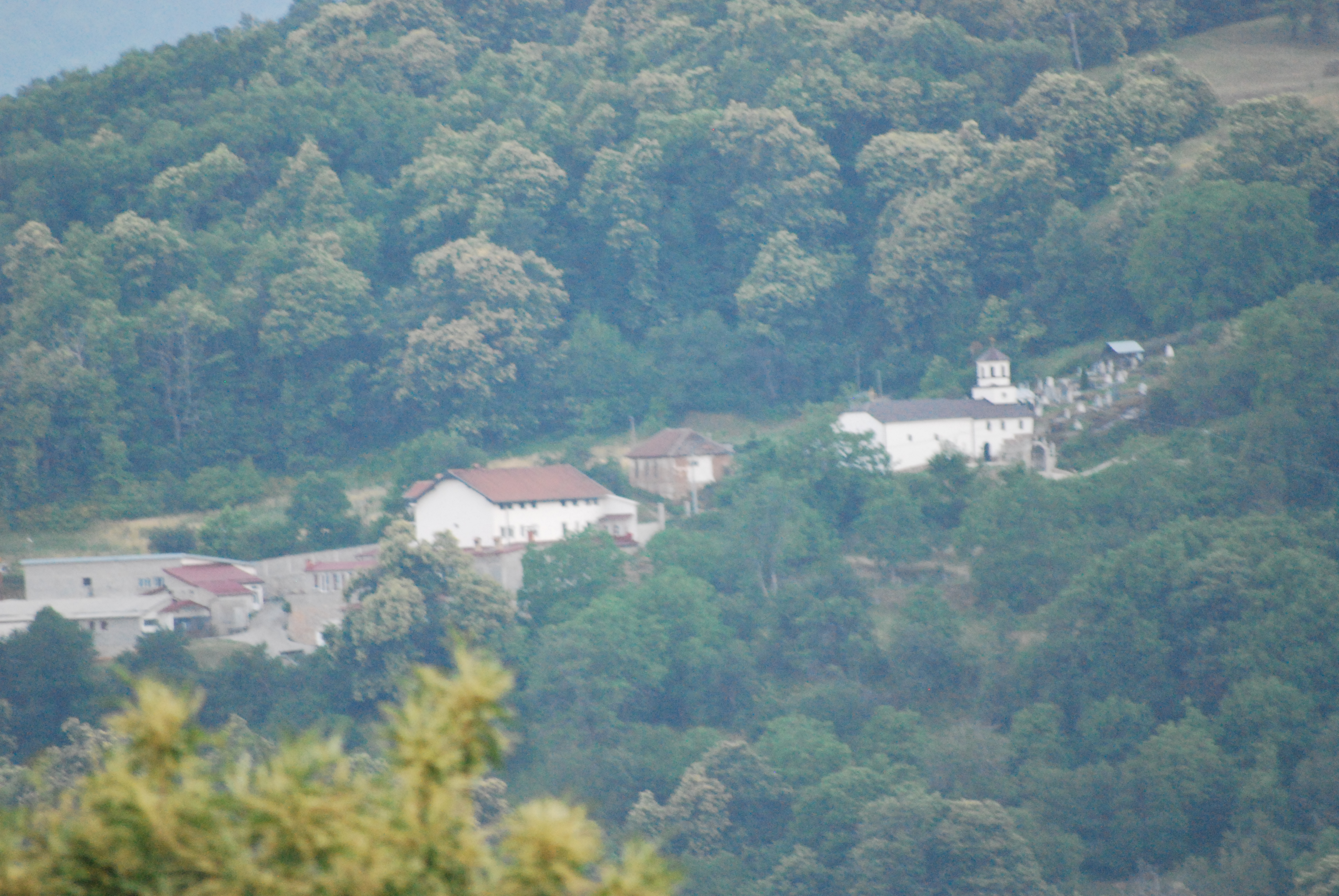 St. Nicholas Church in Pečkovo near Gostivar, Macedonia